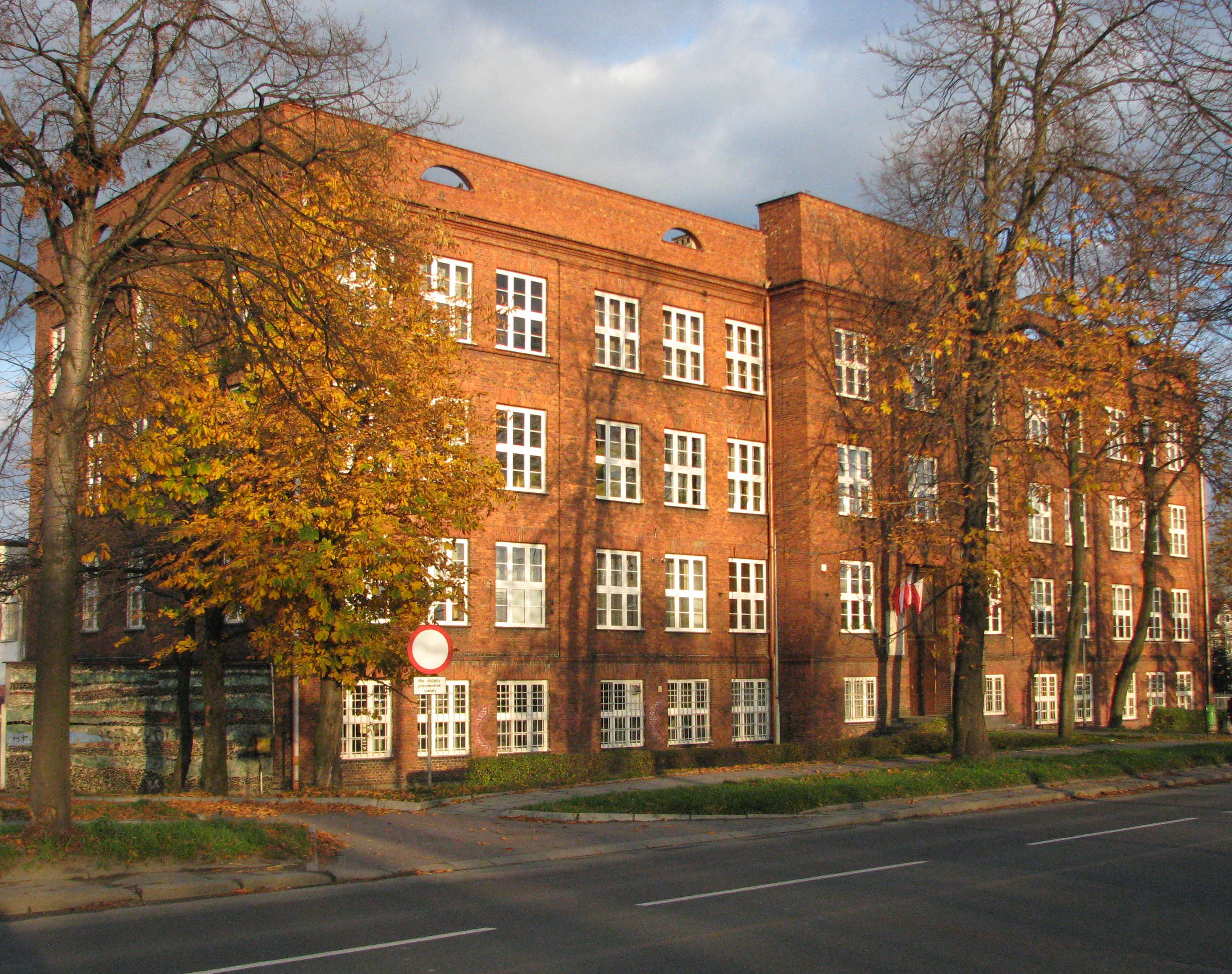 Liceum im. Stanisława Konarskiego w Oświęcimiu, Poland